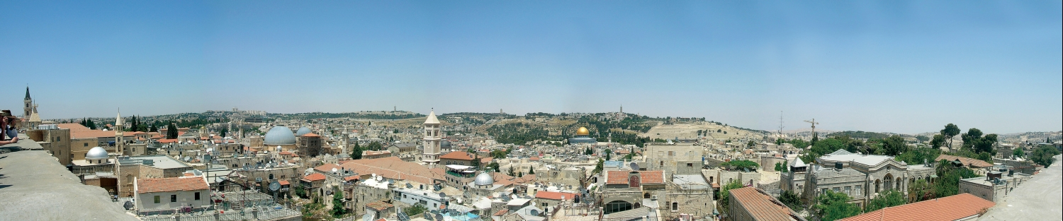 panorama of Jerusalem